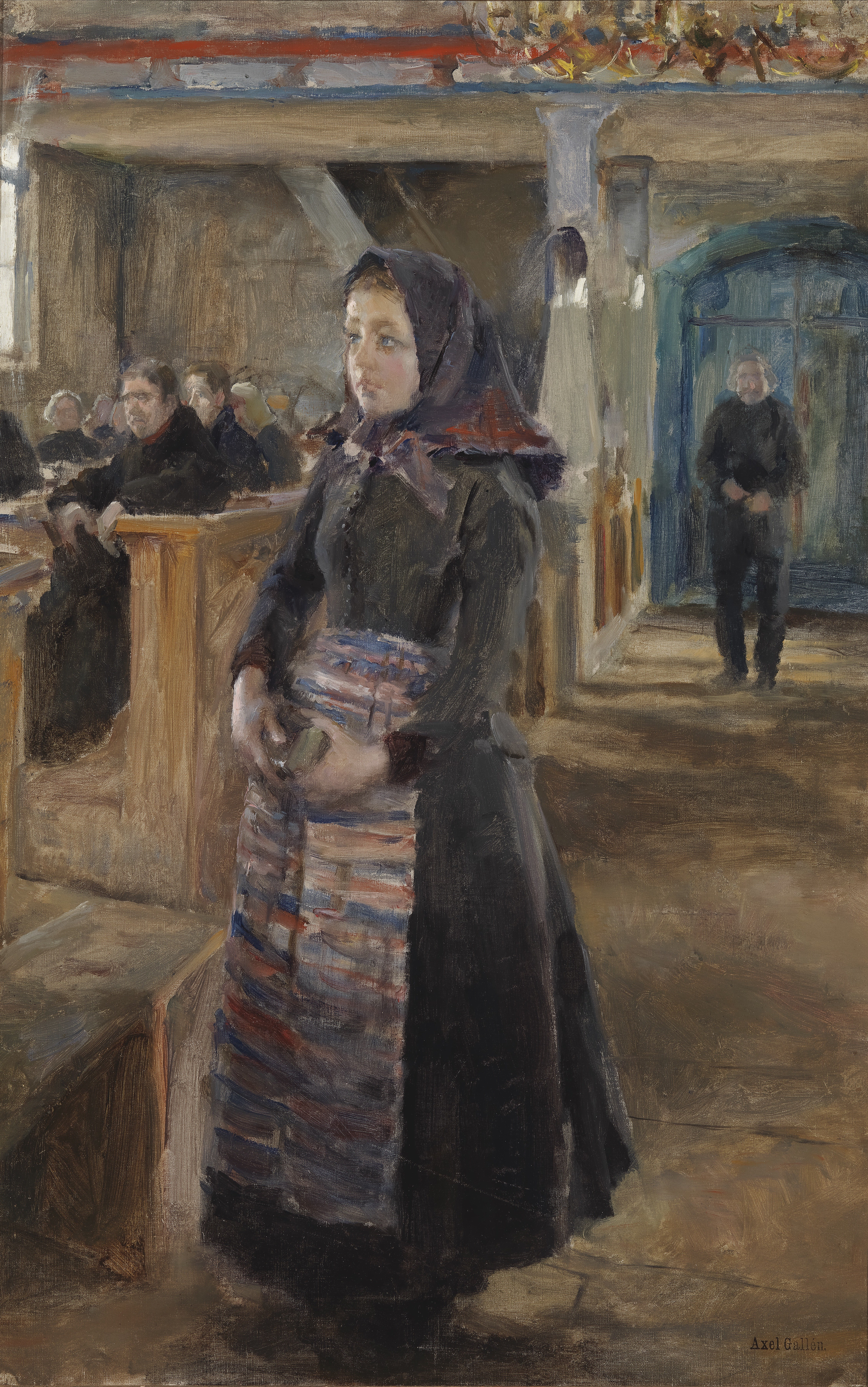 Model Maria Raunio (nee Saarinen) from Keuruu.